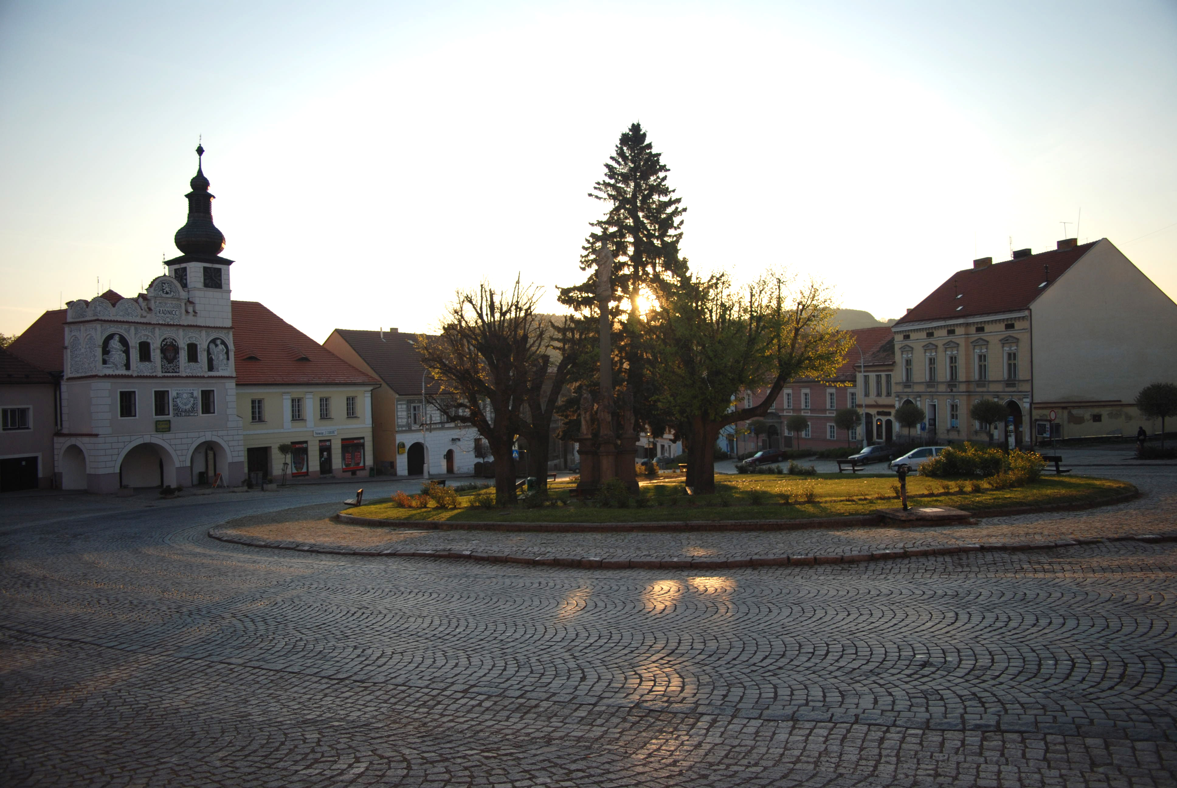 square in town of Volyně, Czech republic